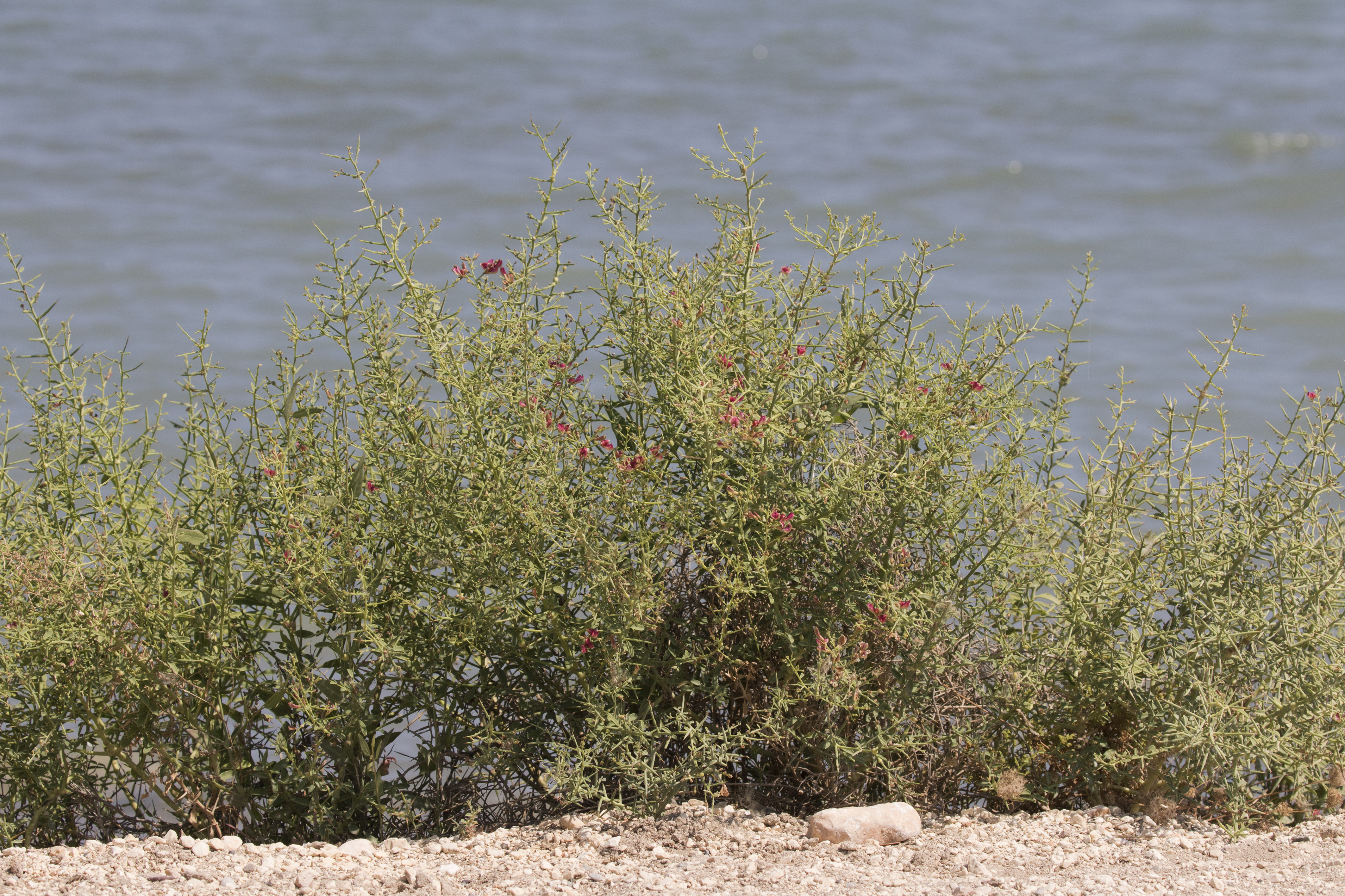 Camelthorn (Alhagi pseudalhagi) by the side of Paradeniz Lagoon in Silifke - Mersin, Turkey.